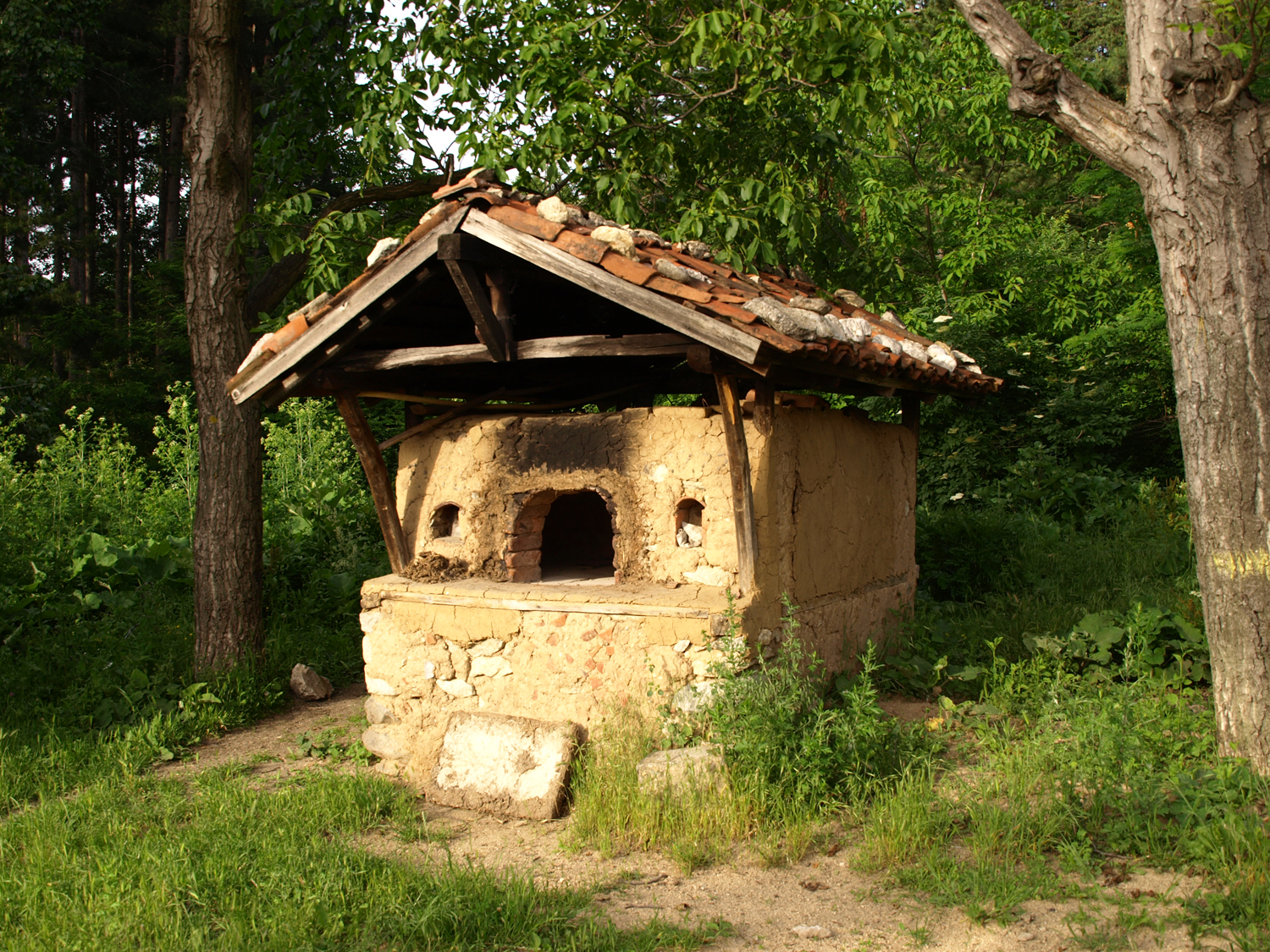 Stand alone country oven